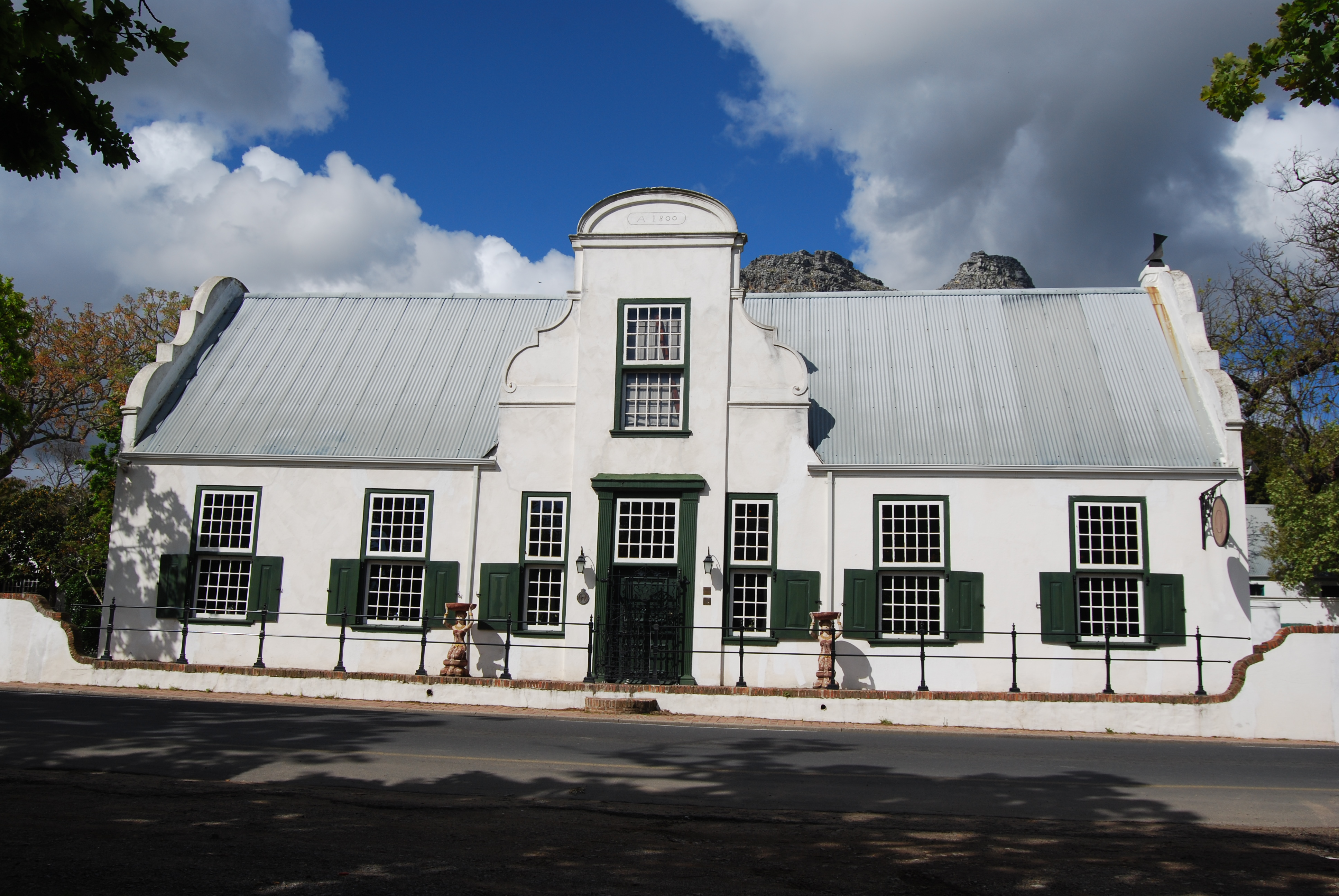 Kronendal, Main Road, Hout Bay This media shows a South African Protected Site with SAHRA file reference 9/2/111/0049.